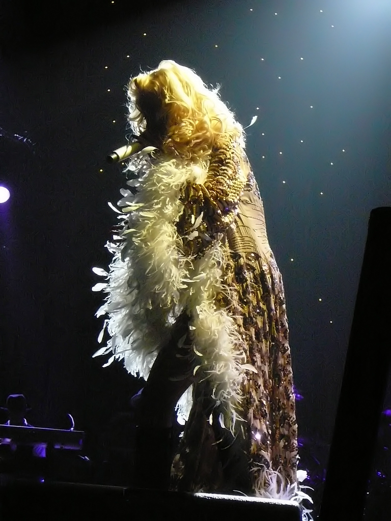 Christina Aguilera, Back Basic Tour singing "Hurt"